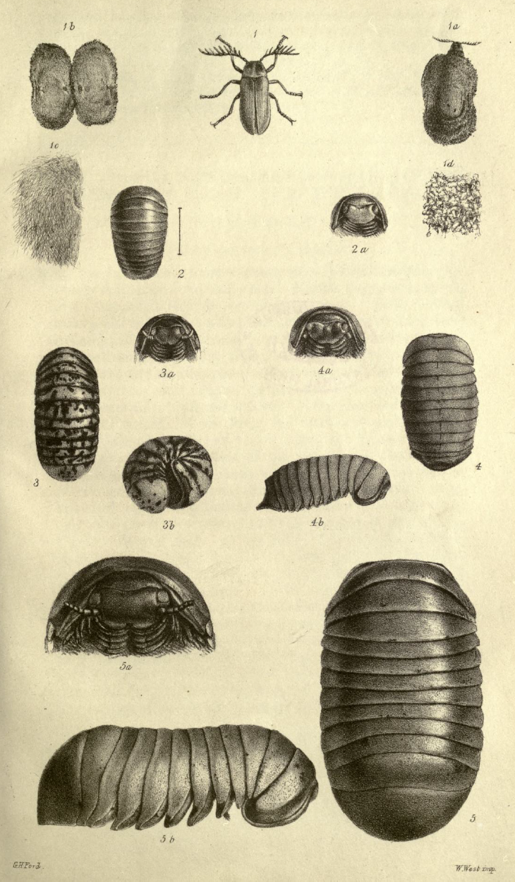 PLATE VII XXXI. — Spicilegia Entomologica. — III. Note on the Pupa-case of a Coleopterous Insect from Northern China. By Adam White, A.Z.D. British Museum, Corr. M.L.S. Lyons, &c. Fig, 1. Paralichas Guerinii, male, magnified: 1 a, the case, of the natural size, with the insect's head and thorax exserted ; 1 b, the case, of the natural size, open, Figs, 1 c. and 1 d. show small portions of the case, highly magnified. Fig. 1 c. represents a piece of the inside of the case. Fig. 1 d. shows a portion of the coarser-grained outside. XLII. — Spicilegia Apterologica. — I. Myriapoda of the genus Zephronia (J. E. Gray), in the Collection of the British Museum. By Adam White, A.Z.D. British Museum Fig. 2, 2a: Zephronia (Sphaerop.) DeLacyi (now Procyliosoma delacyi, Procyliosomatidae) Figs.3, 3a, & 3b: Zephronia (Sphaerop.) versicolor (now Arthrosphaera versicolor, Arthrosphaeriidae) Figs. 4, 4a, & 4 b: Zephronia (Sphaerop.) pulverea (now Sphaerotherium dorsale, Sphaerotheriidae) Figs. 5, 5a & 5b: Zephronia actaeon (now Zoosphaerium actaeon, Arthrosphaeriidae)